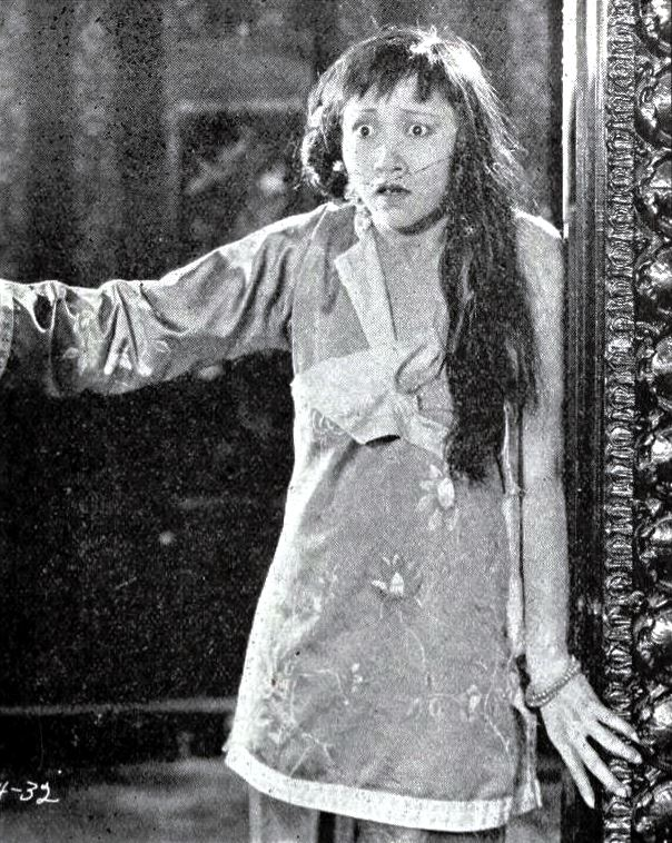 Still from the American silent drama film Drifting (1923) with Anna May Wong, on page 11 of the October 6, 1923 Universal Weekly.